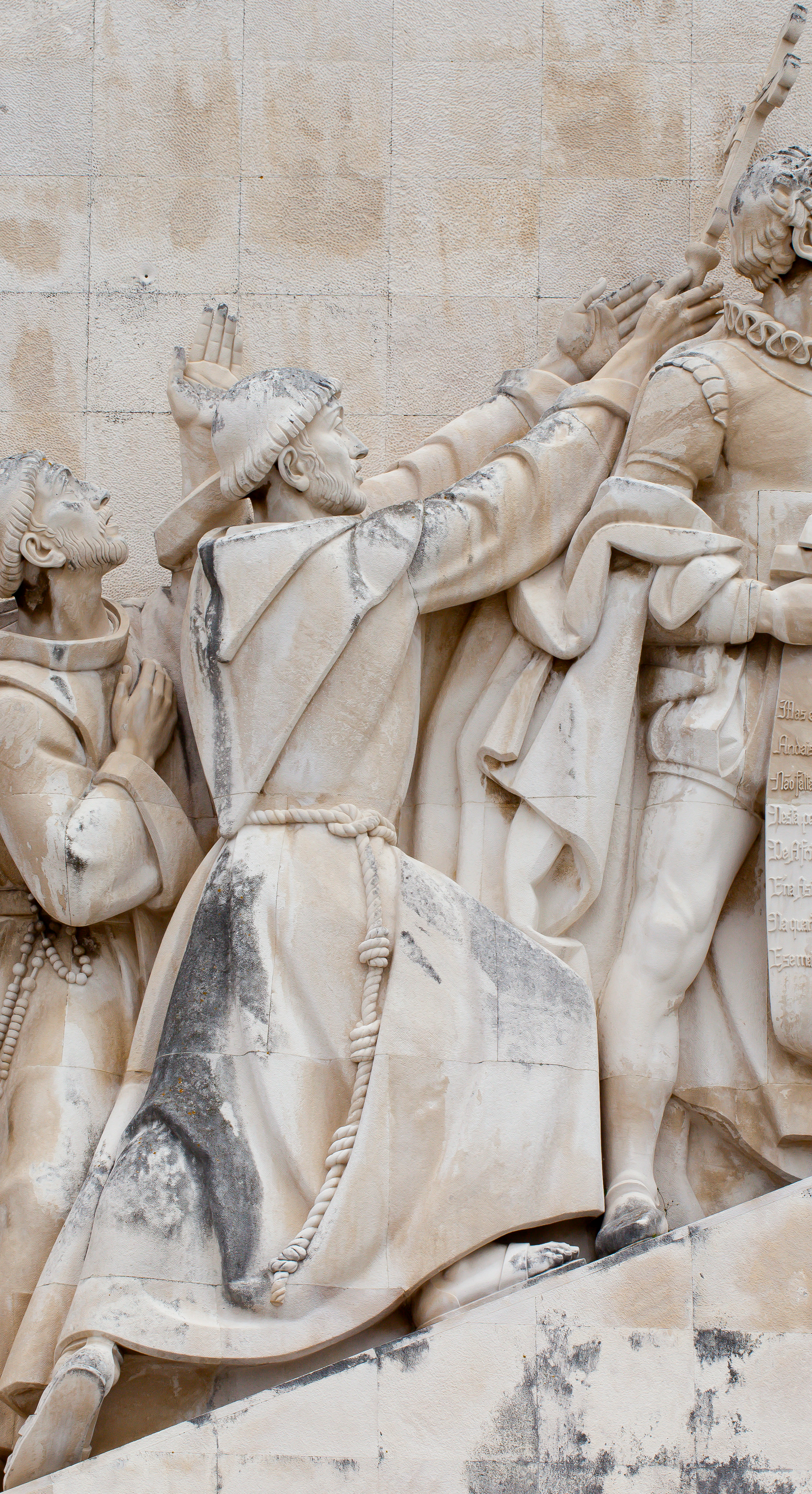 Effigy of Friar Henrique of Coimbra (ca. 1465-1532), Catholic friar and later bishop, known for having presided over the first Mass ever celebrated in South America (Brazil, 26 April, 1500), in the Padrão dos Descobrimentos (Monument to the Discoveries), in Lisbon, Portugal.